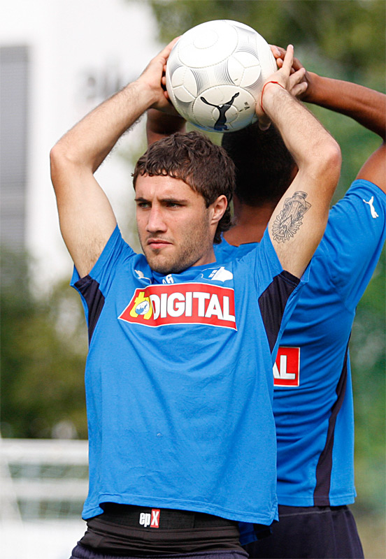 taken in autumn 2009 at a training session